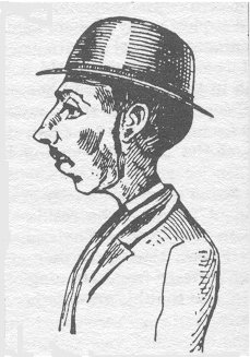 Mapleton in a police composite drawing from 1881